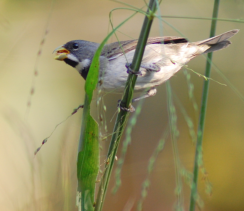 Double-collared Seedeater Sporophila caerulescens(Brazil=Coleirinho)